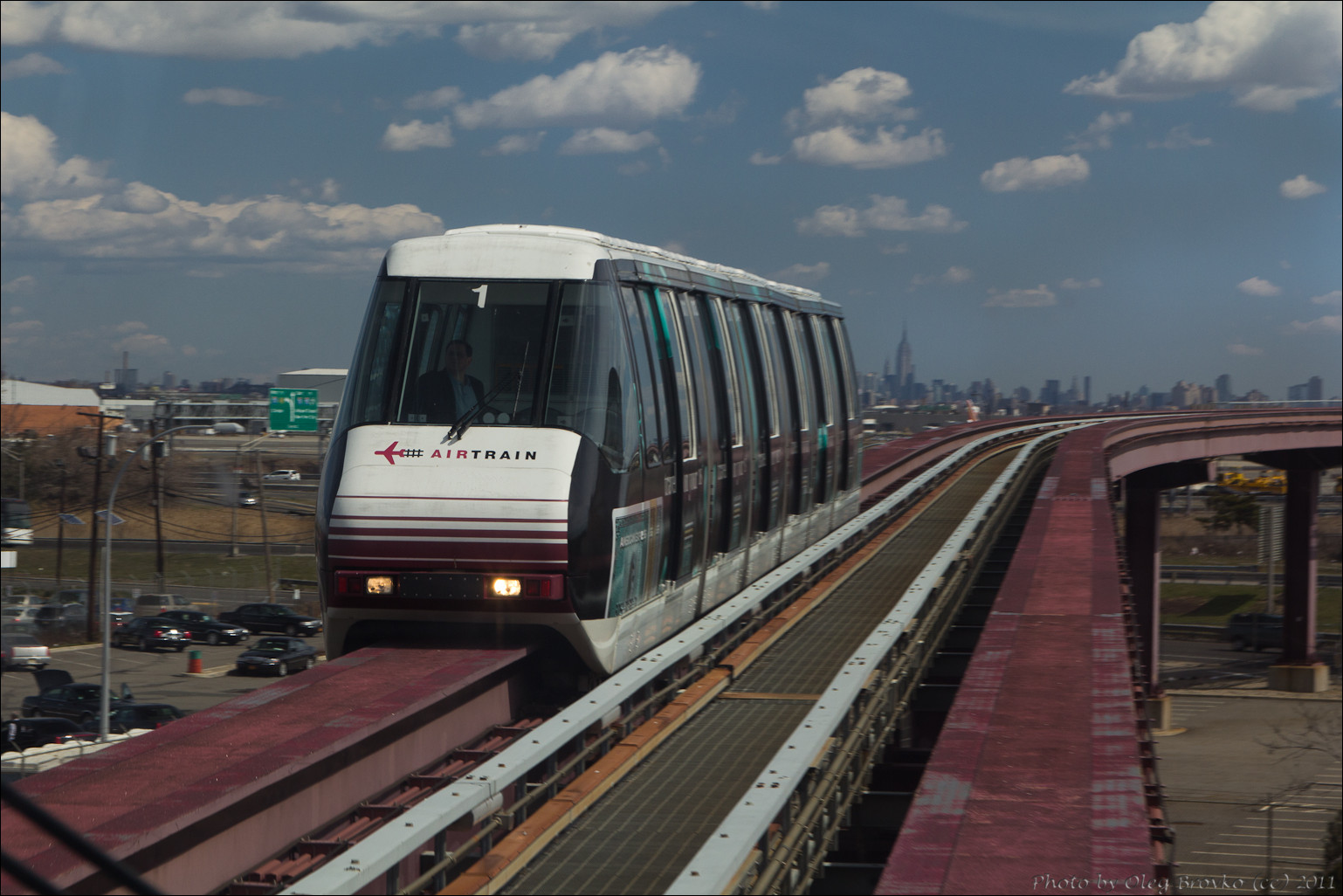 New York BOO&Brina USA Trip 2011